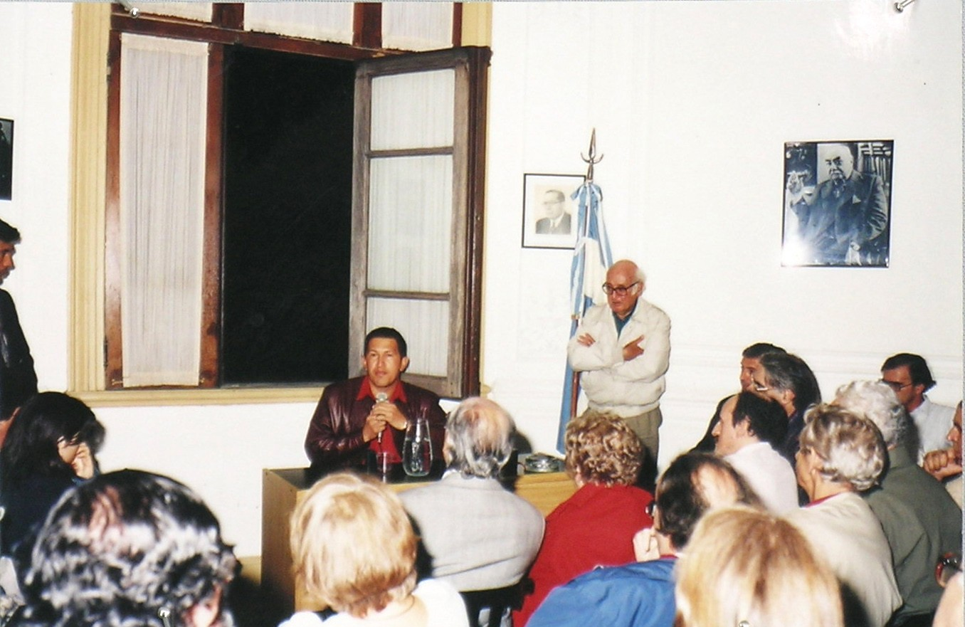 In his visit to Buenos Aires, in 1995, Hugo Chávez Frías spoke in the Center for National Studies Arturo Jauretche and was presented by Jorge Enea Spilimbergo.